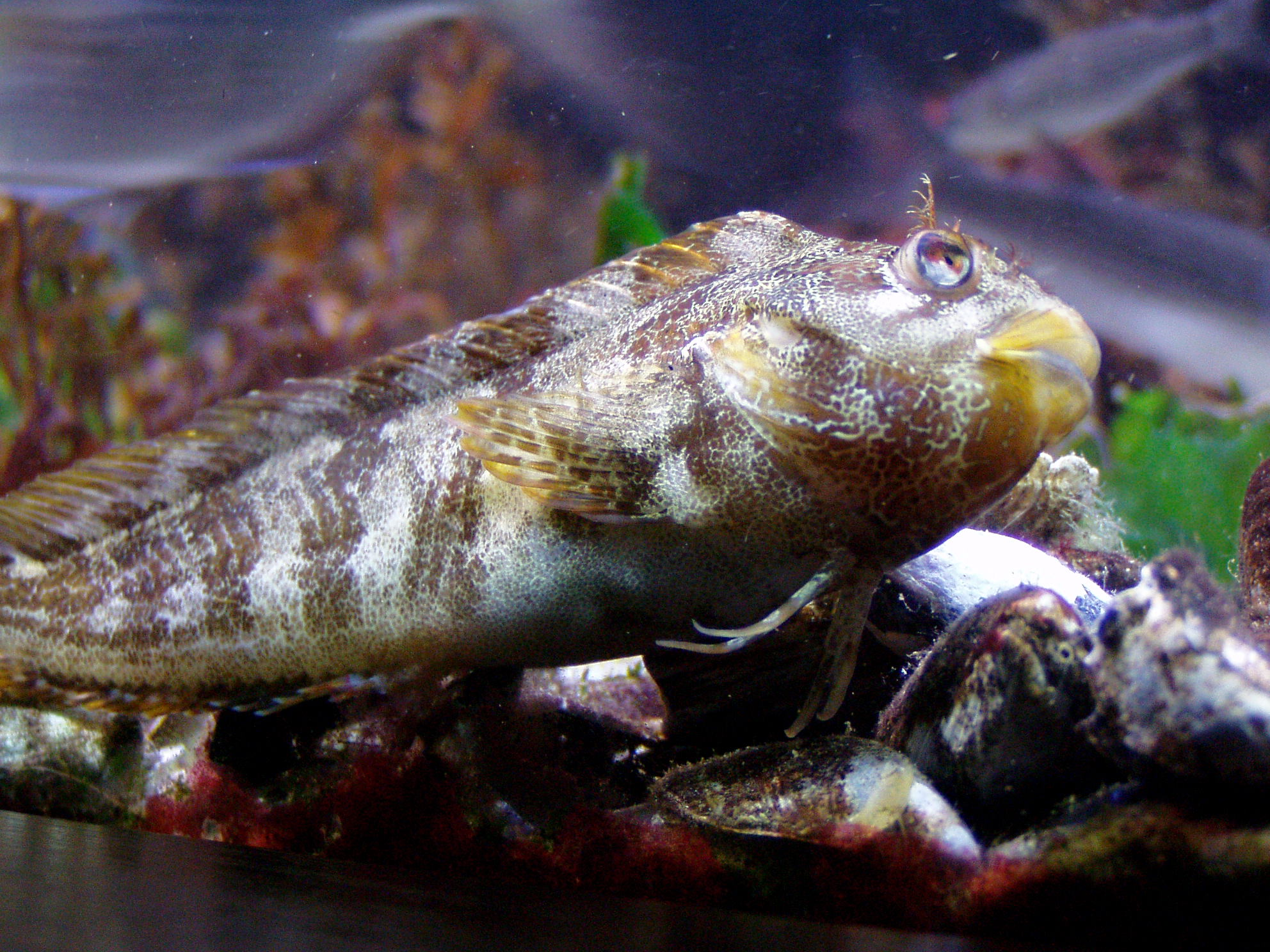 Tompot Blenny